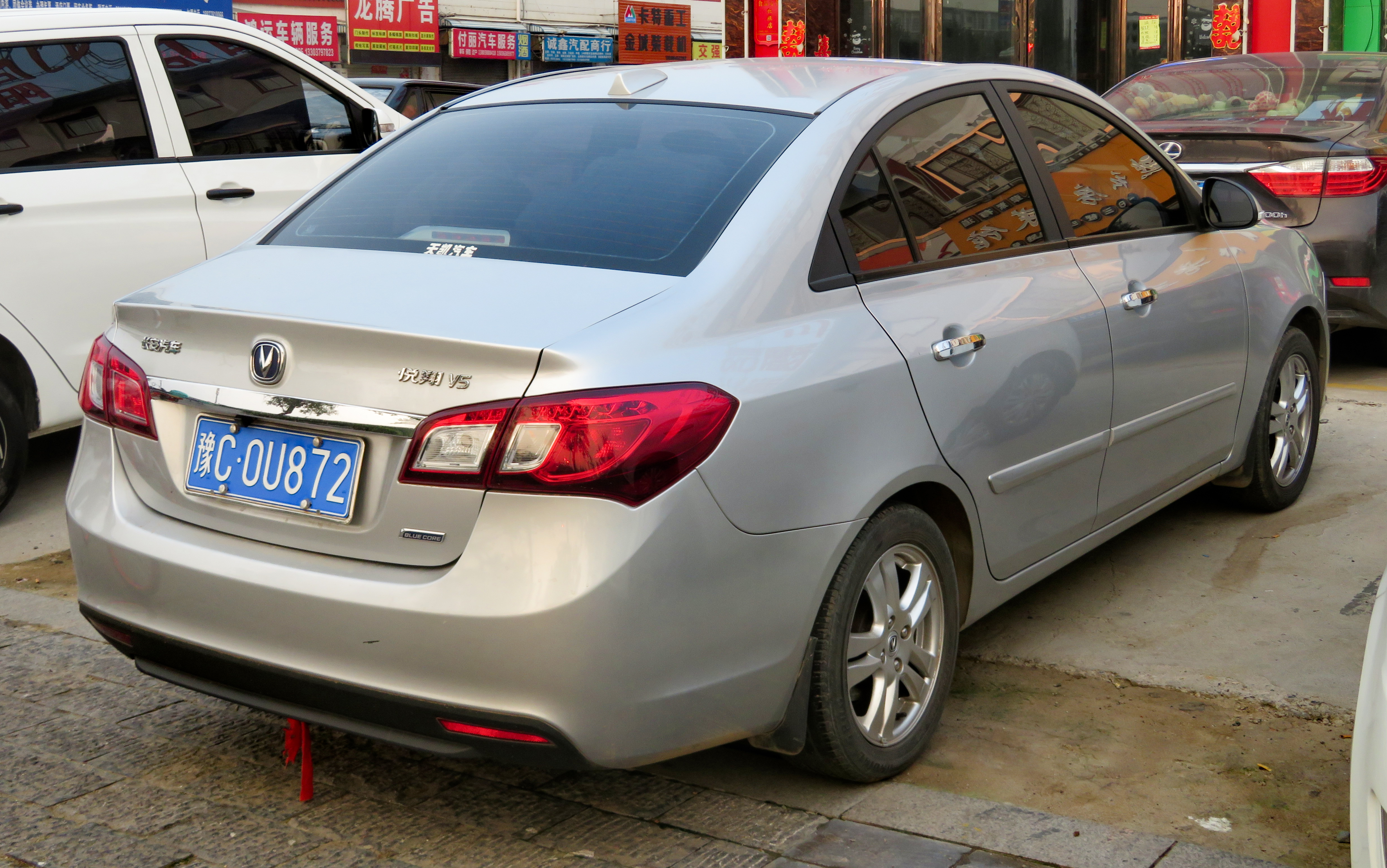 A 2014 Chang'an Alsvin V5 photographed at Guanlinzhen, in Luoyang, Henan province, China